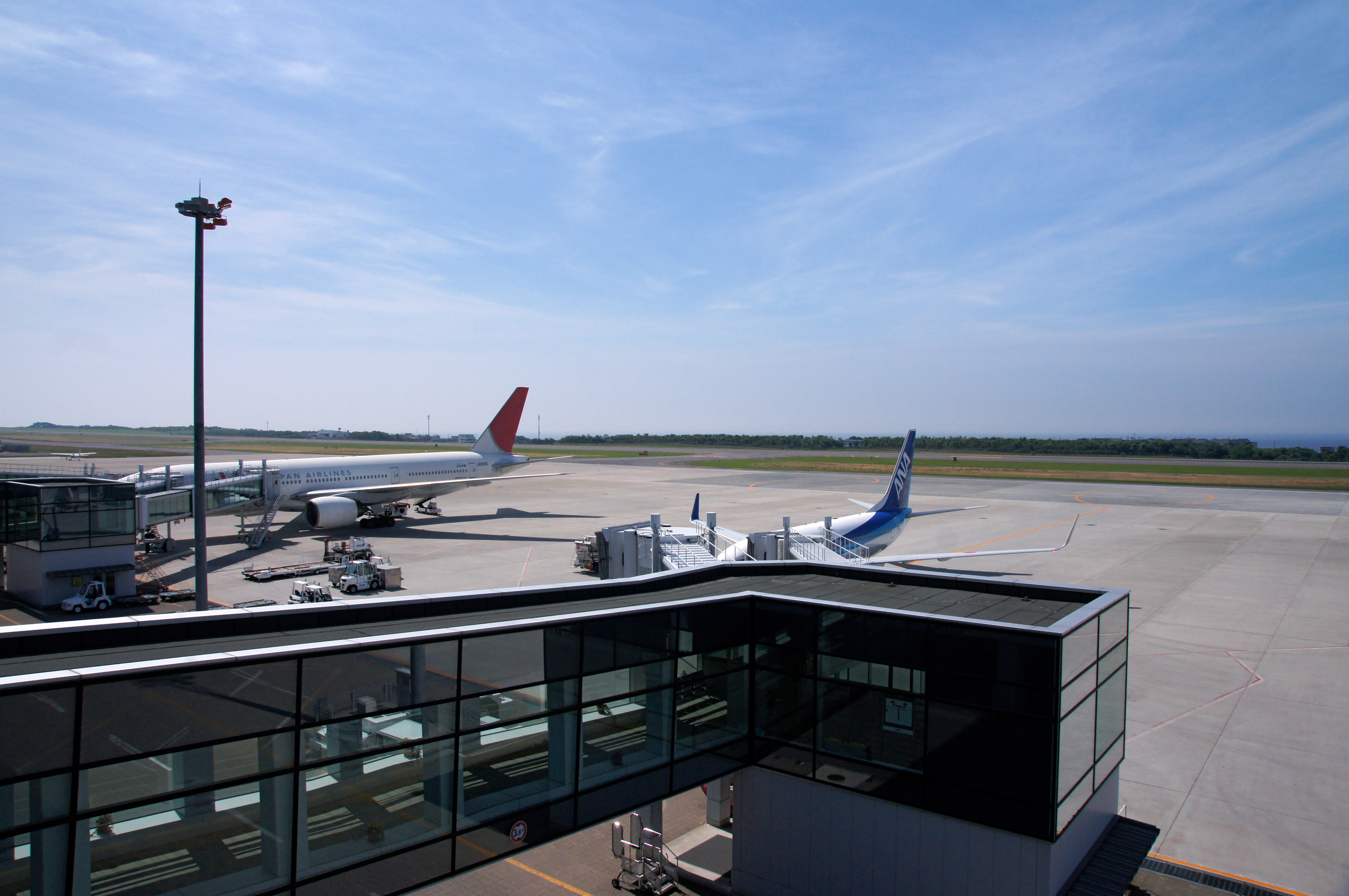 Hakodate Airport in Hakodate, Hokkaido prefecture, Japan